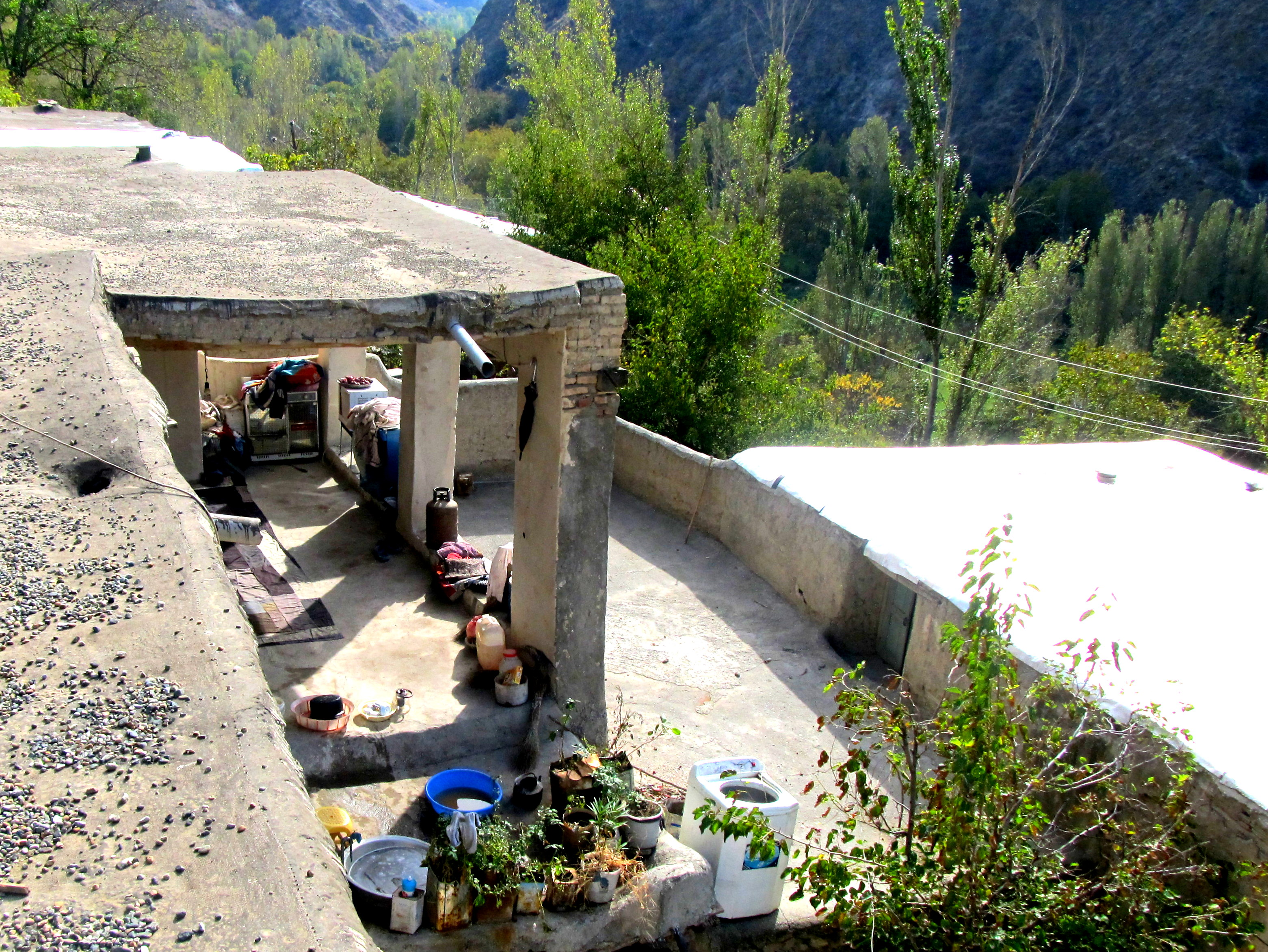 For Abbasabad file